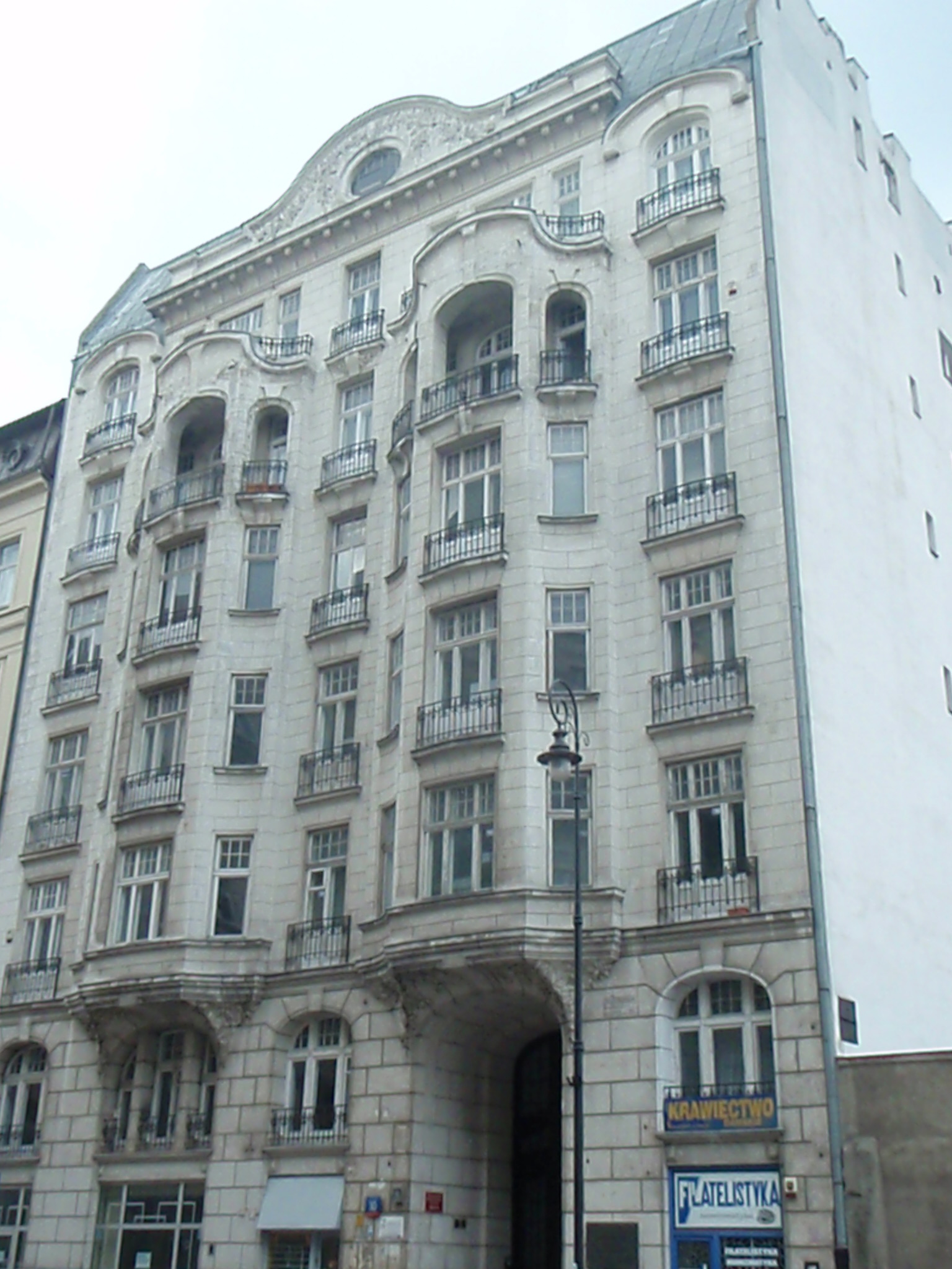 zabytkowy budynek